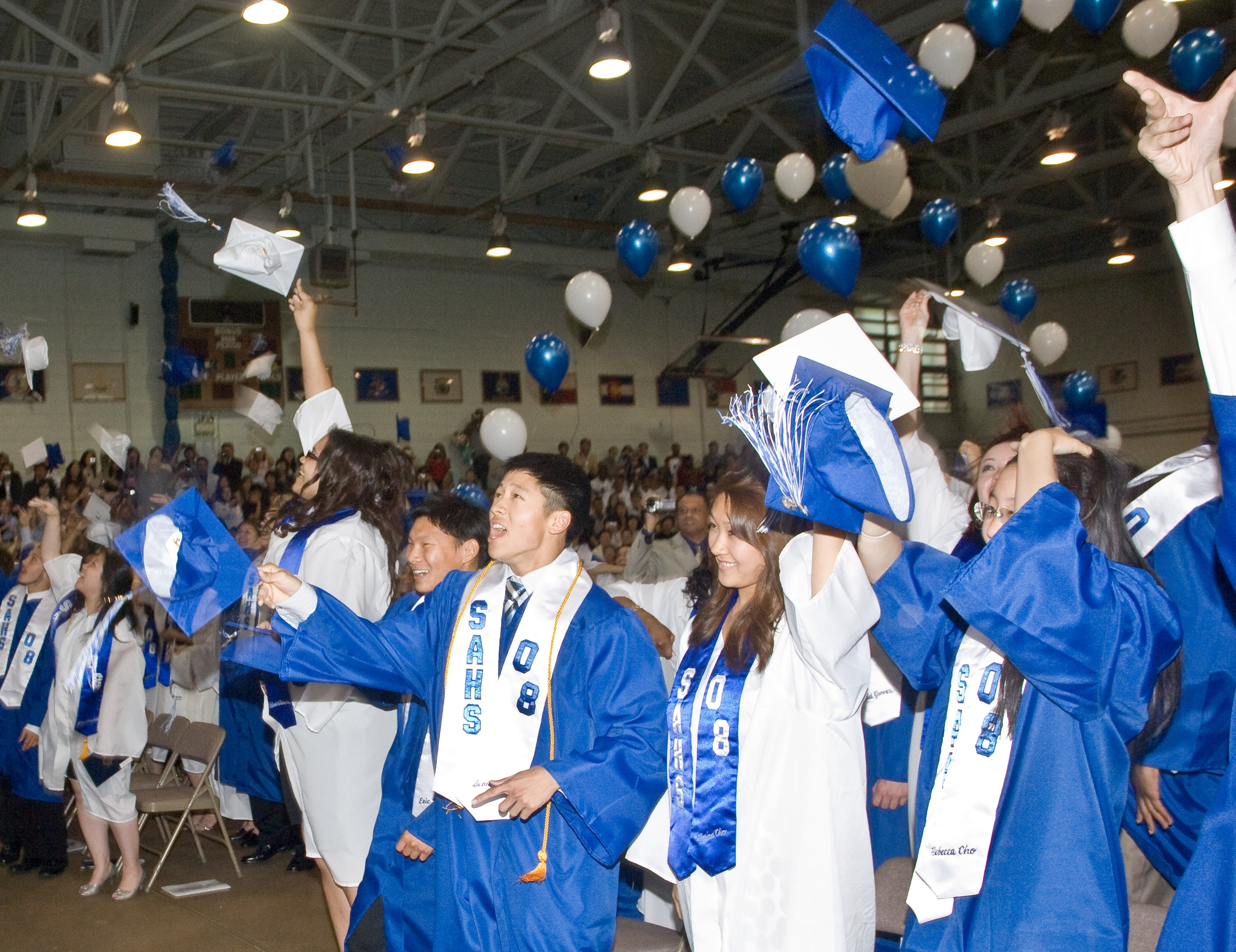 YONGSAN GARRISON, Republic of Korea - Some of the 132 seniors with Seoul American High School throw their caps in celebration of their last day of high school during the Class of 2008 graduation ceremony June 7.